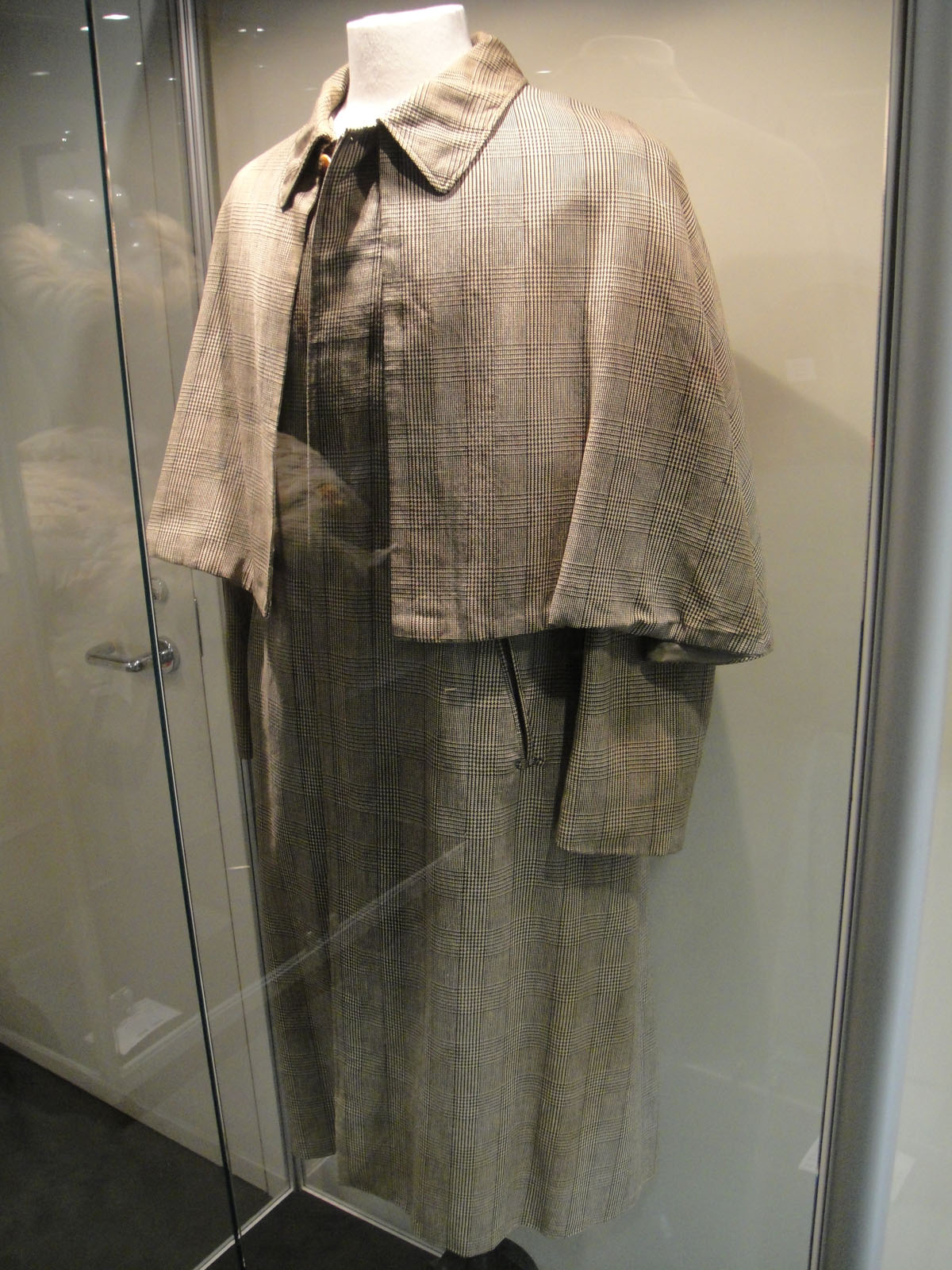 Basil Rathbone "Sherlock Holmes" signature iconic caped overcoat from The Adventures of Sherlock Holmes (1939) and The Hound of the Baskervilles (1939) at the Debbie Reynolds Auction Breaks Up Historic Hollywood Collection (The Paley Center for Media in Beverly Hills, Los Angeles, CA, USA).